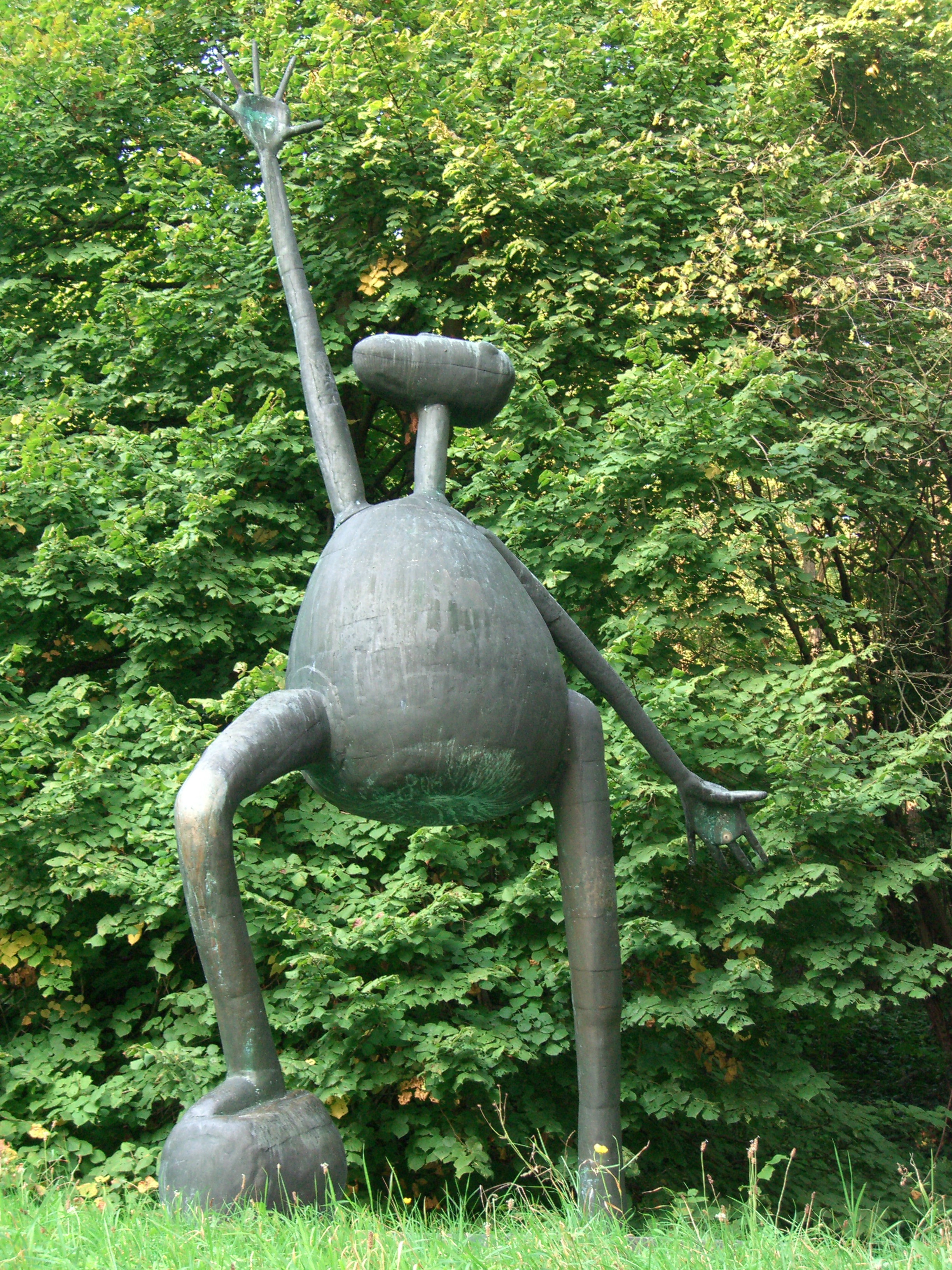 The sculpture "Prometheus" by Heinrich Kirchner at the Burgberggarten in Erlangen, Germany.